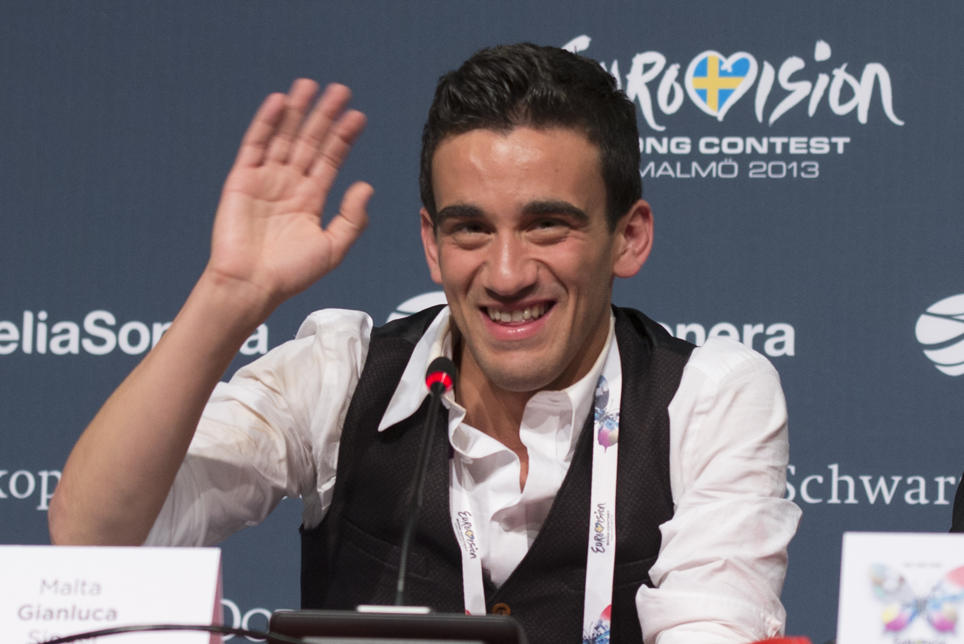 Gianluca at a press conference during the Eurovision Song Contest 2013 in Malmö. (Help translate this text)